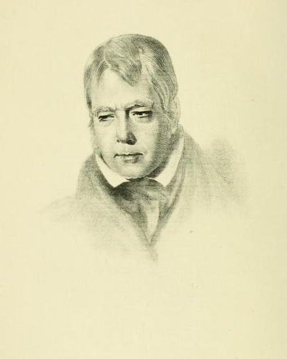 The Scottish author James Glass Bertram.